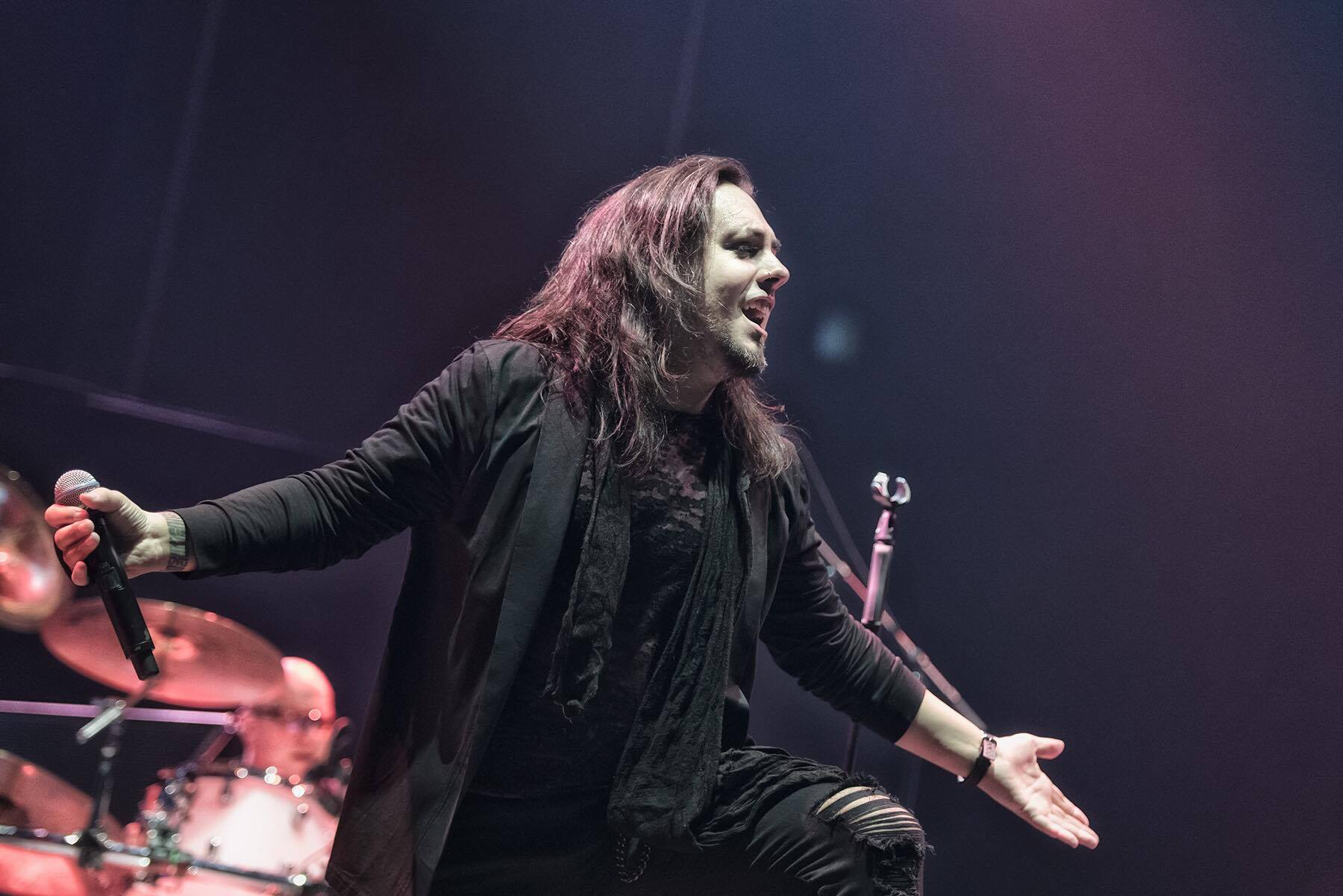 Baol Bardot Bulsara in his debut as a singer of TNT.